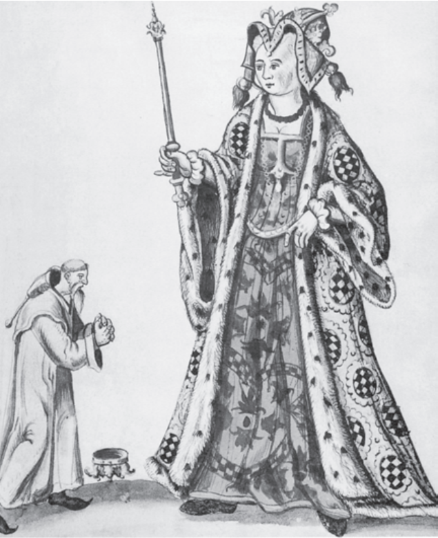 Queen Margrete was remembered by posterity mainly for her victory over King Albrecht. In 1589 she was depicted in a list of kings, triumphantly raising her sceptre towards the small King Albrecht, who begs for mercy. The Royal Library, Denmark.